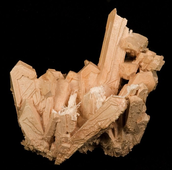 Thenardite, Mirabilite Locality: Boron, Kramer District, Kern County, California, USA (Locality at ) Size: 5.9 x 5.4 x 4.9 cm. An aesthetic, divergent, skyscraper-like spray of very lightweight, tan thenardite pseudomorphing mirabilite crystals from the Boron area of California. The sharp crystals are beautifully hoppered and the long crystals look just like Art Deco skyscrapers. Ex. Jim Minette Collection. From Rock Currier: "Those specimens showing the long prismatic mirabilite were collected by Jim Minette from the settling ponds out west of the big open pit mine. They take the mud slurry from the million gallon plus round dissolving tanks that are used at the refinery to dissolve the crude borax ore and run it into the settling ponds to settle out the fine mud/clay particles. Any water that is not evaporated naturally, they run back through the system. Sometimes the water in these ponds is saturated with sulfate and under the right temperature conditions, usually early in the morning, crystals of mirabilite grow rapidly in the ponds, and in the ones that Jim collated the mirabilite grew in prismatic crystals. Some of these had a little "iron" in them, so when the crystals dried out they were pink in color. Jim would put them on the bank of the pond and when they dried enough he would take them home and spray them with Krylon plastic to preserve them."